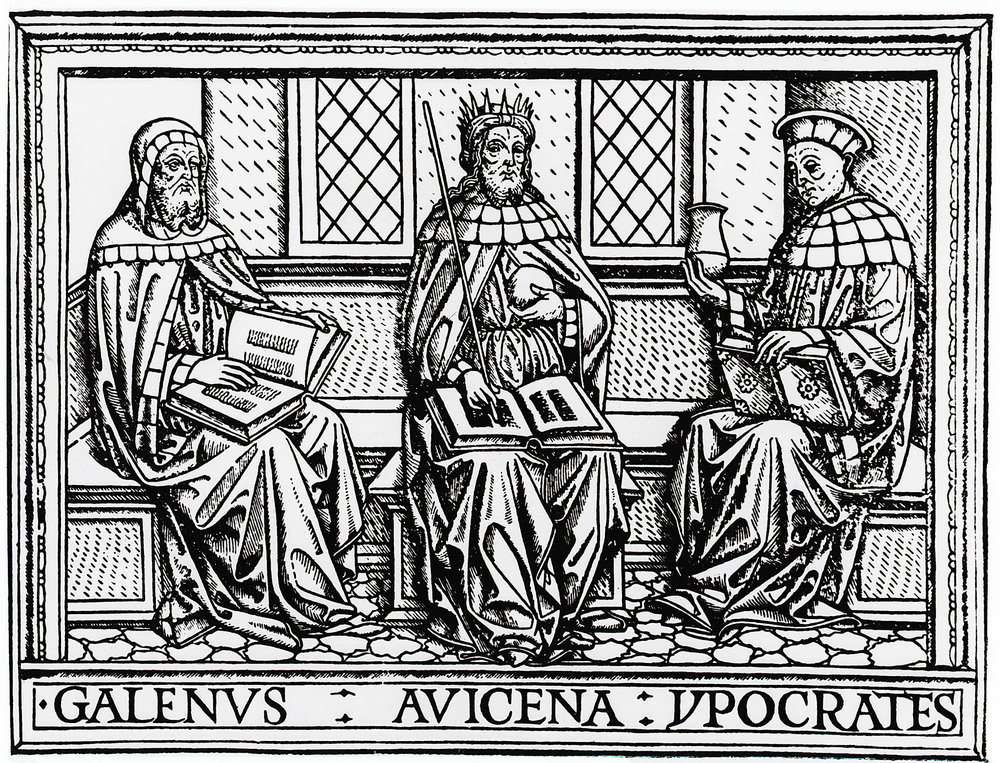 Galenus, Avicenna and Hippocrates pictured in a 16th-century medical book